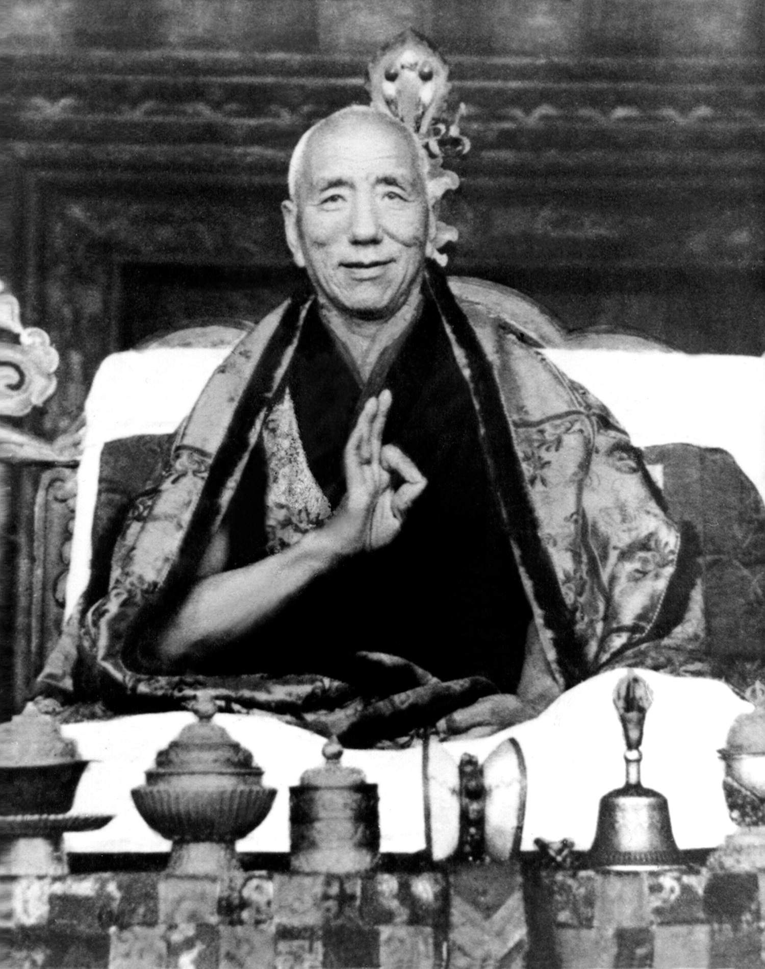 Dzongsar Khyentse Chokyi Lodro, b.1893 - d.1959, a Sakya Tibetan Lama